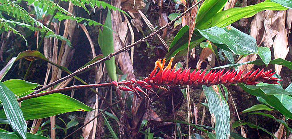 The typical horizontal flower spike, encountered in cloud forests from Costa Rica to Peru. Photo from near Monteverde, Costa Rica. In context at